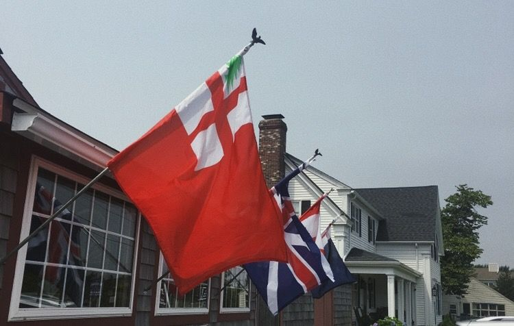 Red Ensign of New England flying in Massachusetts. 2019.